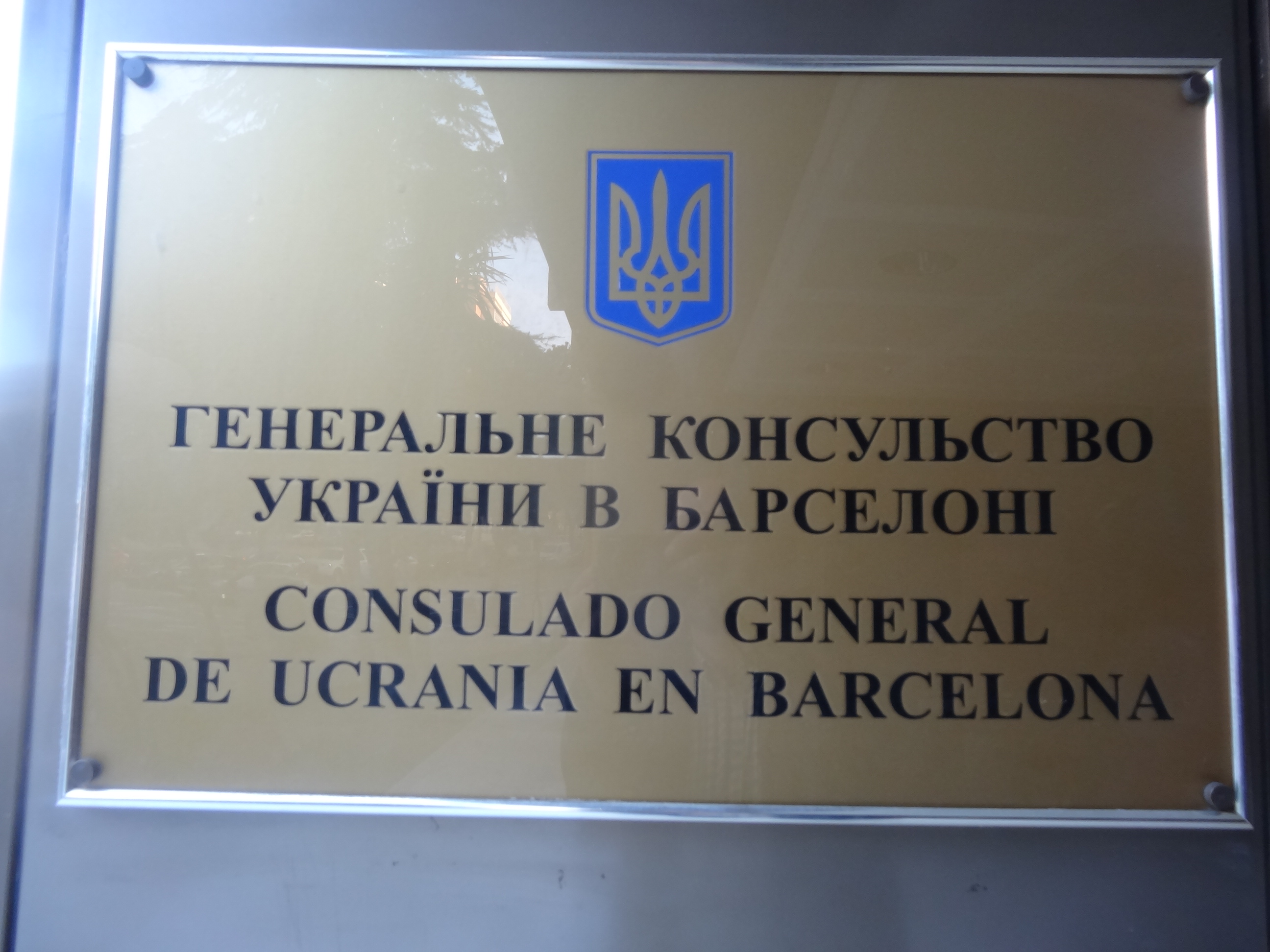 Ukrainian Consulate, Barcelona. Carrer de Numància, 185